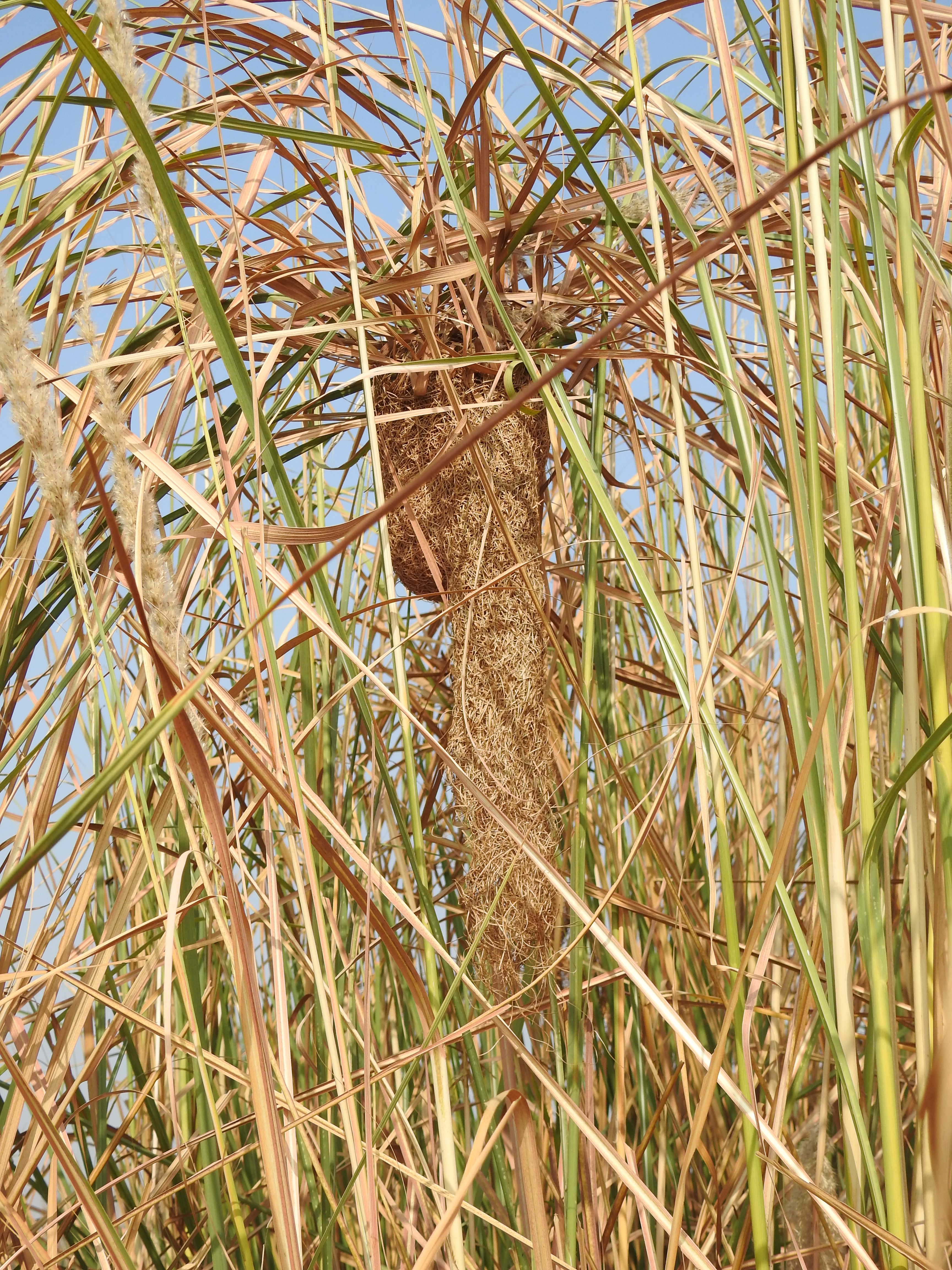 Black-breasted Weaver Ploceus benghalensis by Dr. Raju Kasambe. Photo taken in Chambal, Uttar Pradesh.